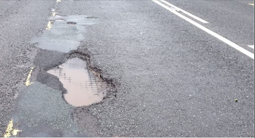 A pothole on the N15 road near Castelgal school